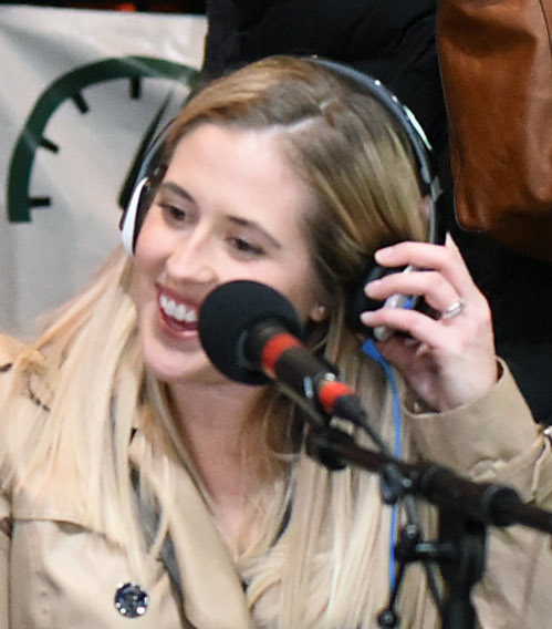 Photo taken at Election Central, Alaska General Election 2018. Election Central was co-hosted by ADN and the Alaska Landmine, and sponsored by GCI and Dittman Resarch. This photo is provided under a Creative Commons Attribution license. Please provide the following credit: "Photo used under Creative Commons license courtesy Paxson Woelber, The Alaska Landmine ."